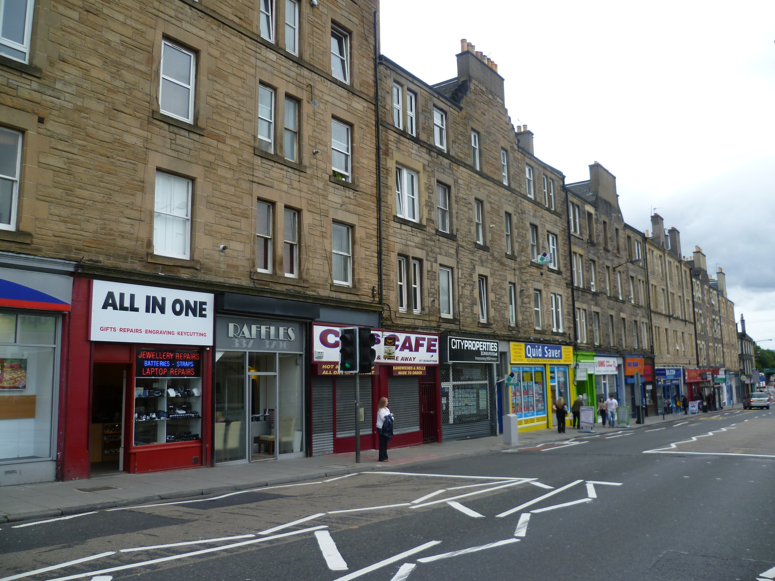 Dalry Road tenements, Edinburgh